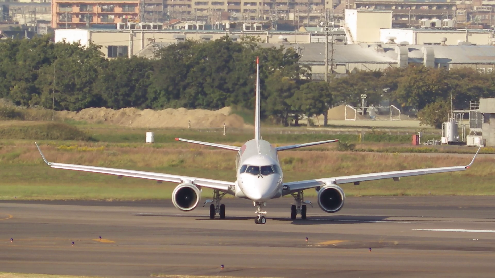 FRONT SIDE PHOTO OF MITSUBISHI REGIONAL JET AT NAGOYA AIR PORT.